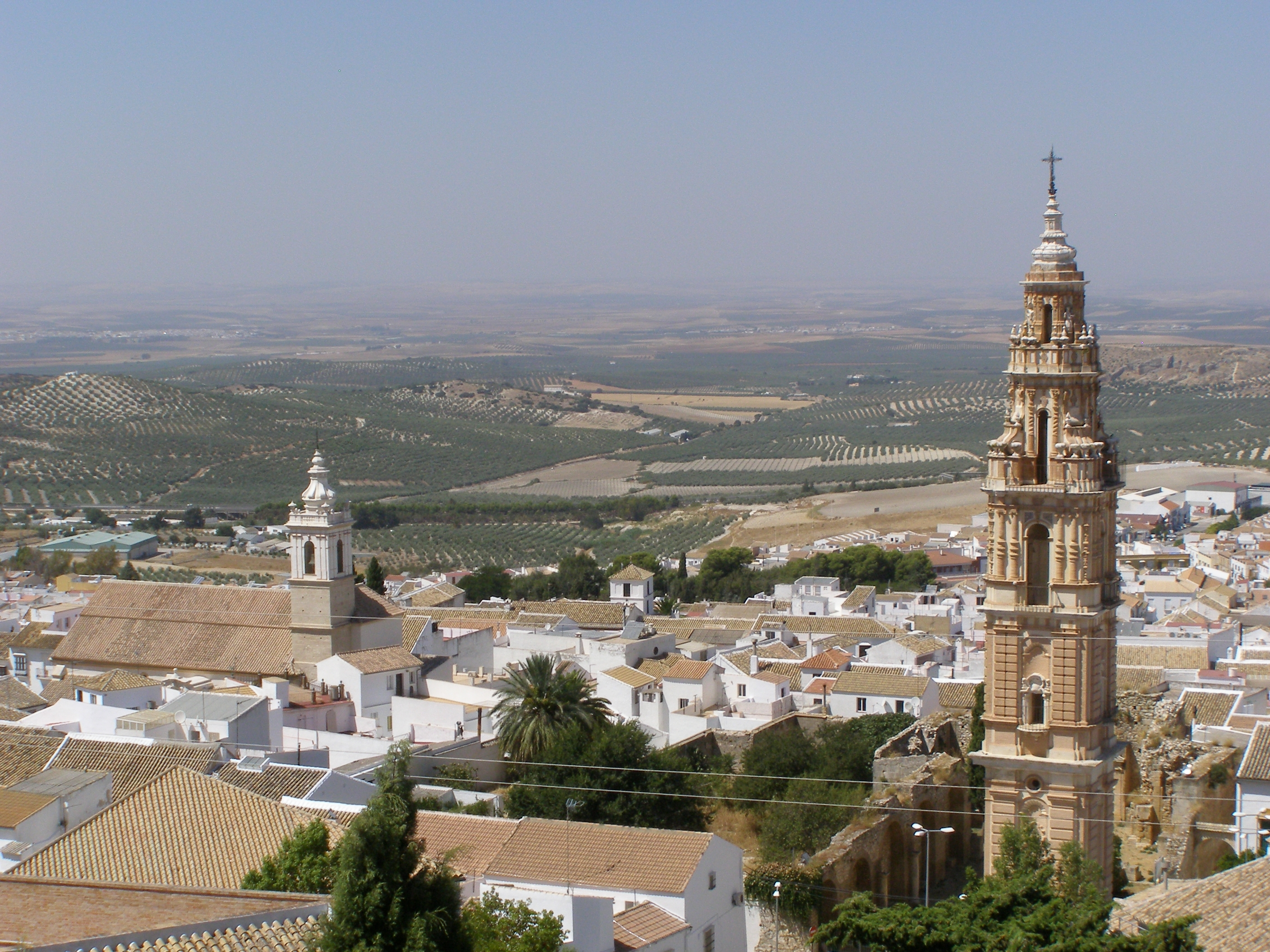 Estepa - view from the Balcony of Andalusia (Balcón de Andalucía)